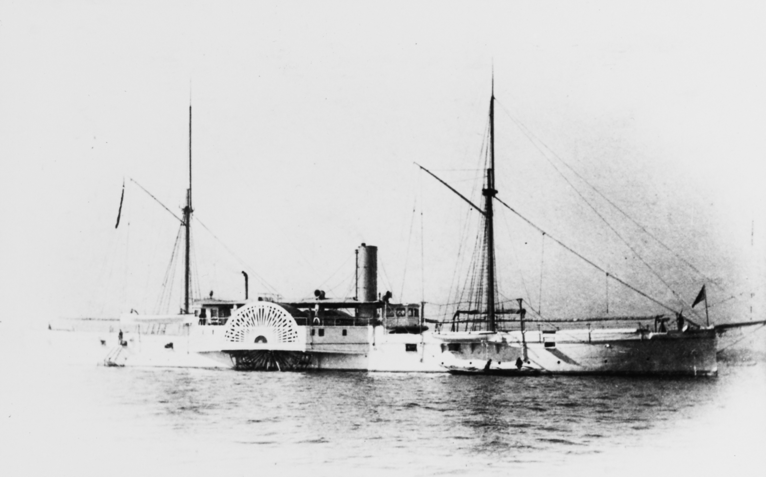 NavSource Online: "Old Navy" Ship Photo Archive - USS Ashuelot